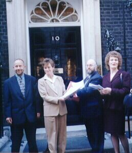 Press for Change leaders join with Labour MP Dr Lynne Jones to present a ten thousand signature petition to Ten Downing Street